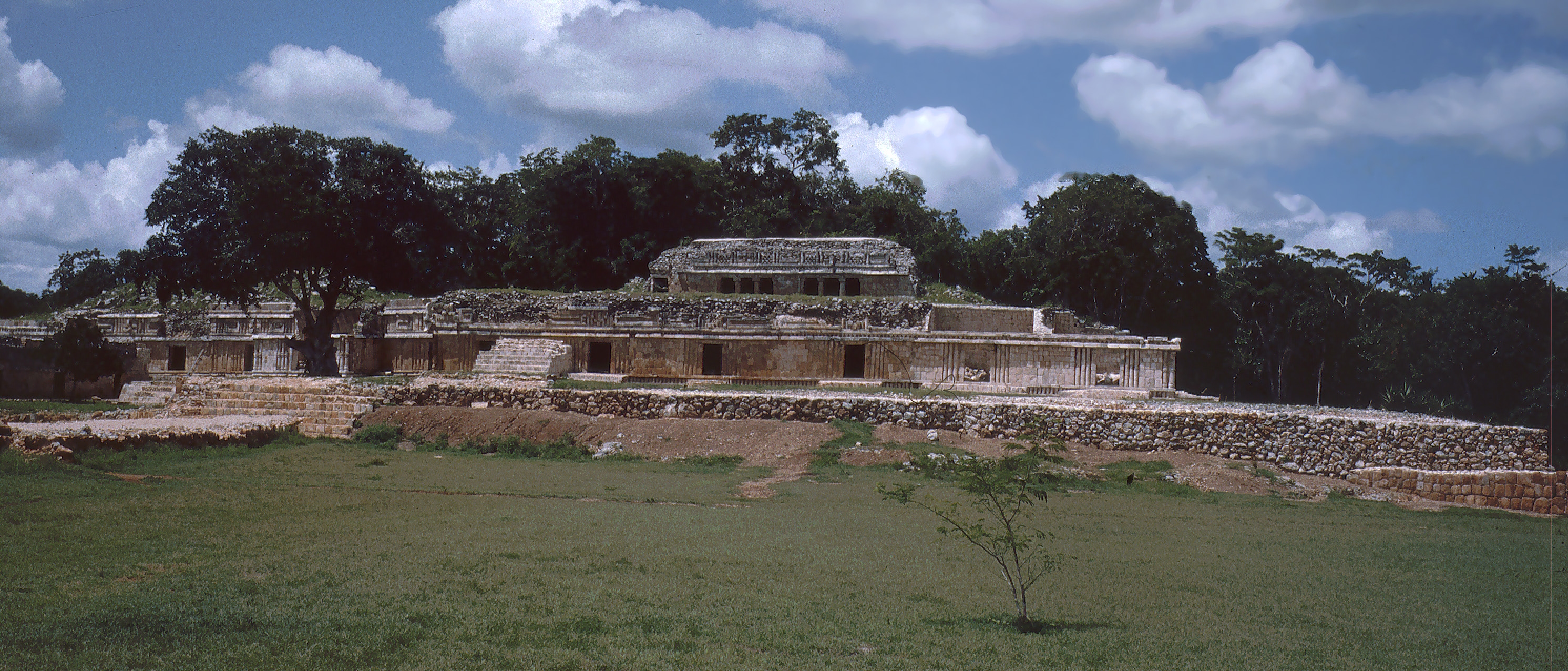 Labná, Yucatan, Mexico: east wing of palace..